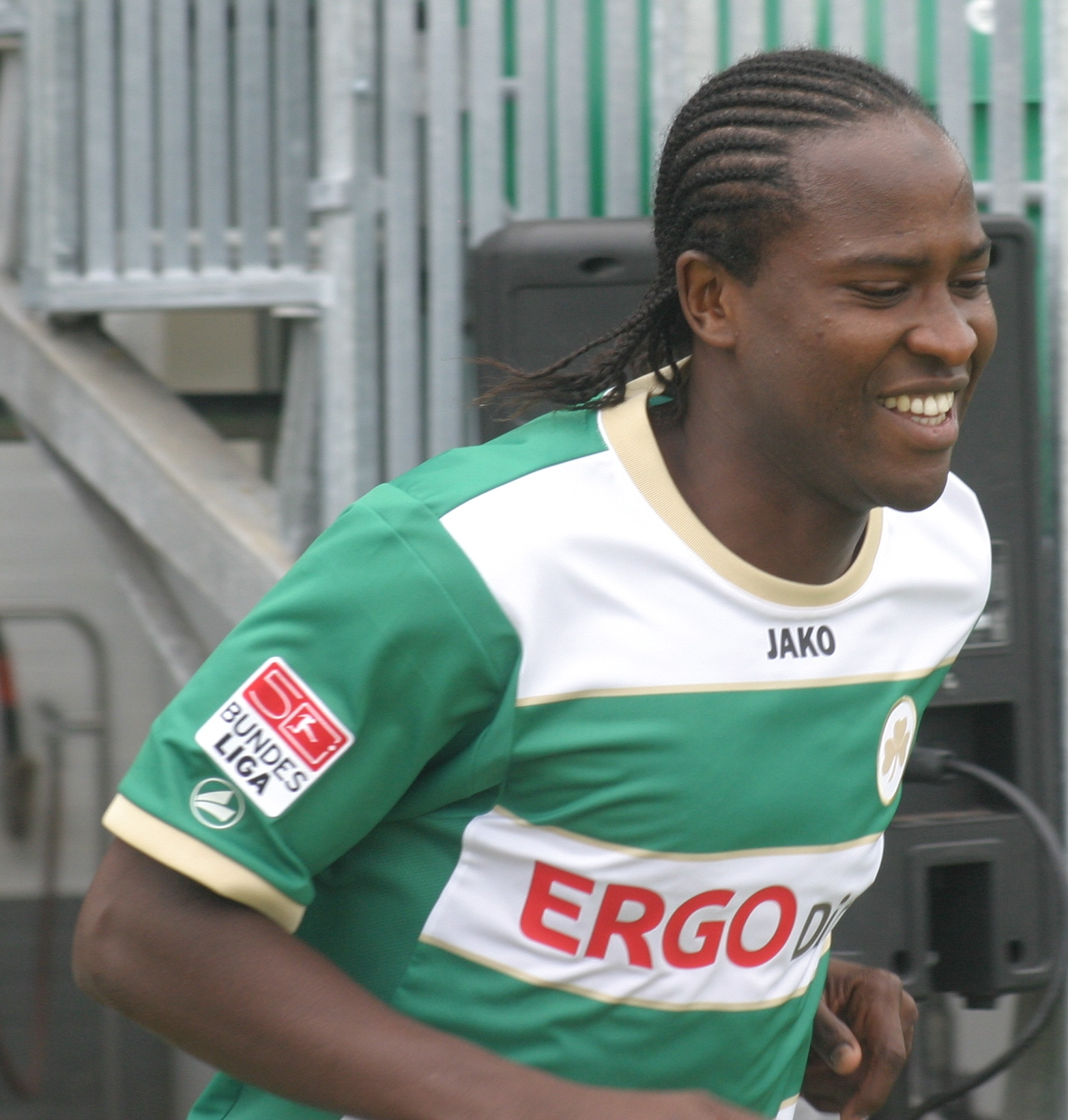 Baye Djiby Fall playing for SpVgg Greuther Fürth in 2012.